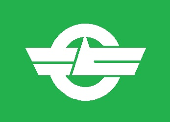 Flag of Mogami Yamagata